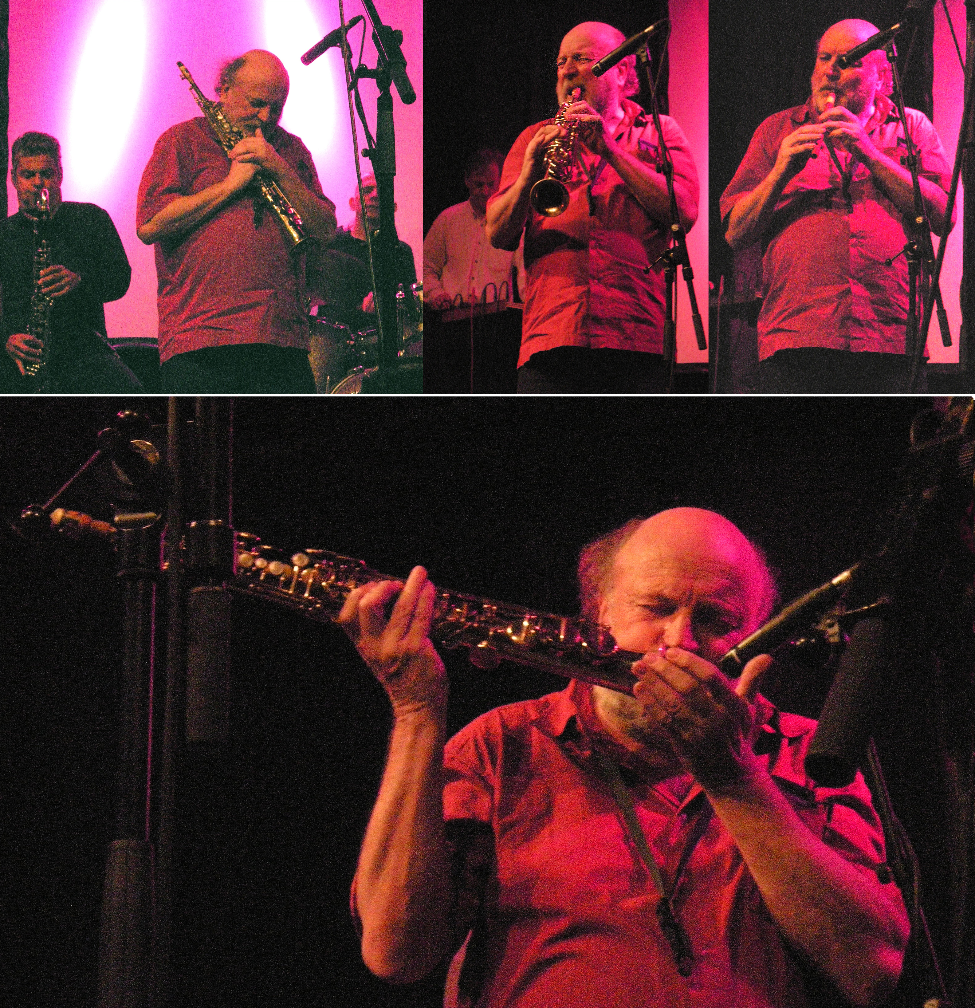 reformARTorchestra performing 'Subway Art', in Porgy&Bess jazz and music club, Vienna, Austria.